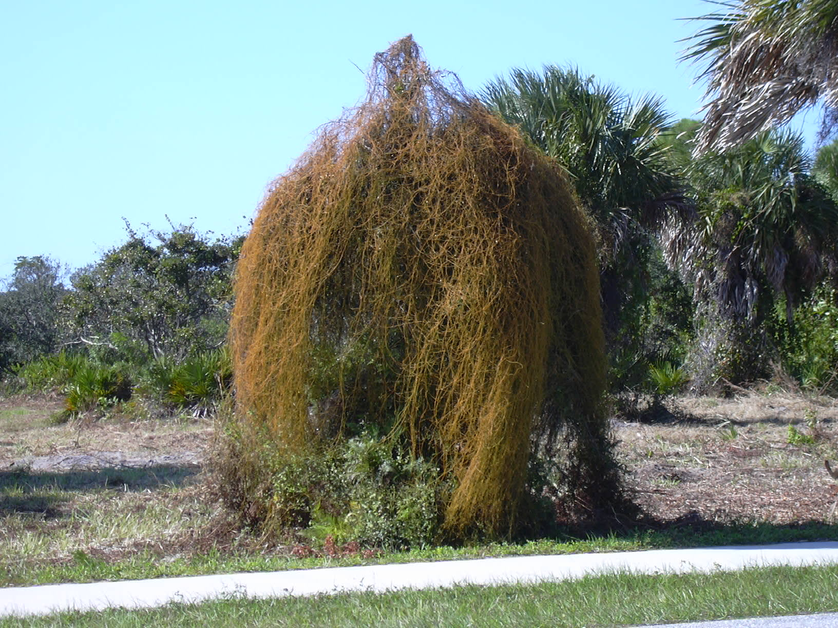 Cassytha filiformis (draping habit). Location: Florida, Caspersen Beach